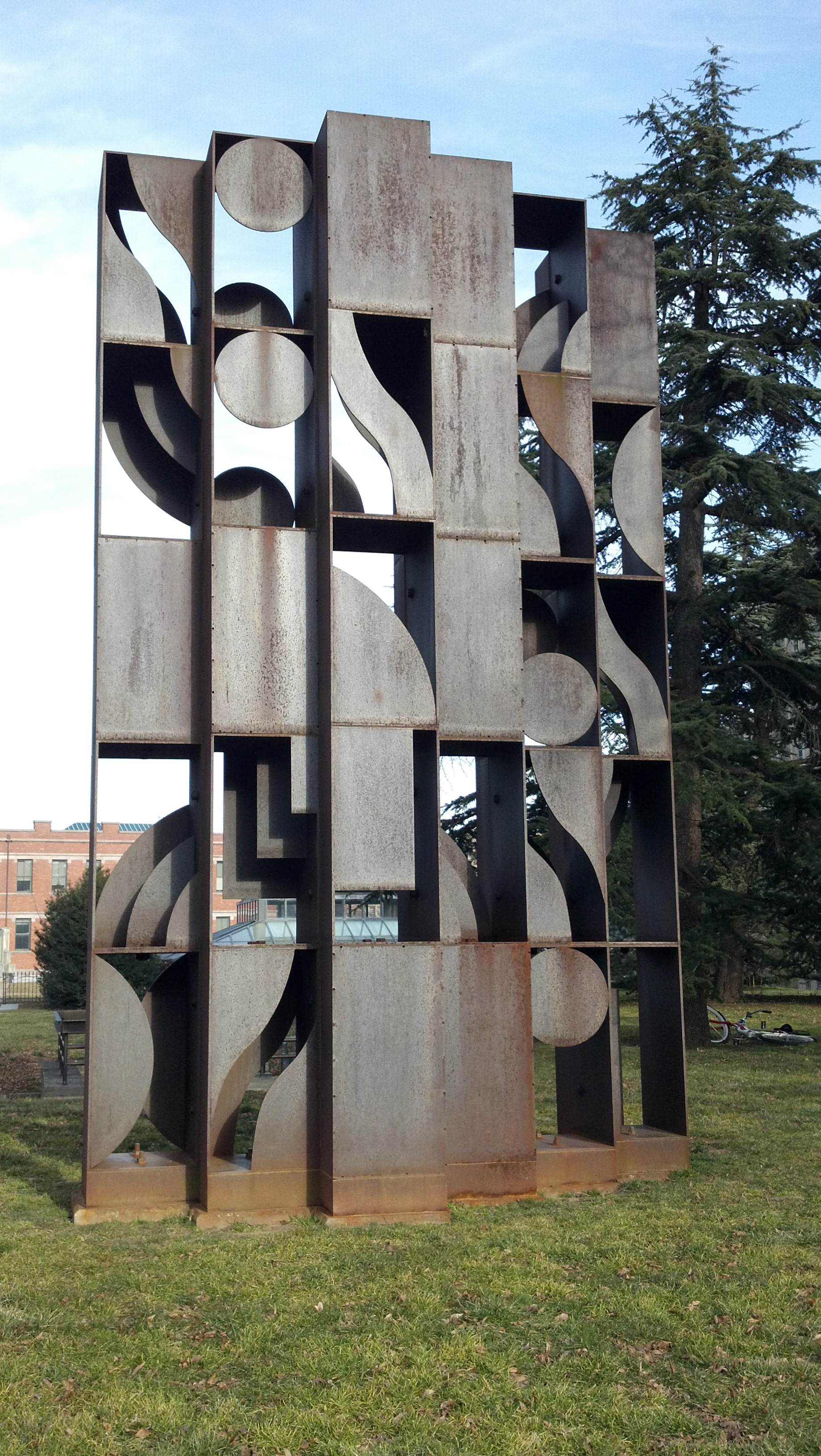 Atmosphere and Environment X, 1965 by Louise Nevelson, part of the John B. Putnam, Jr. '45 Collection of Sculpture, Princeton University, Princeton, NJ